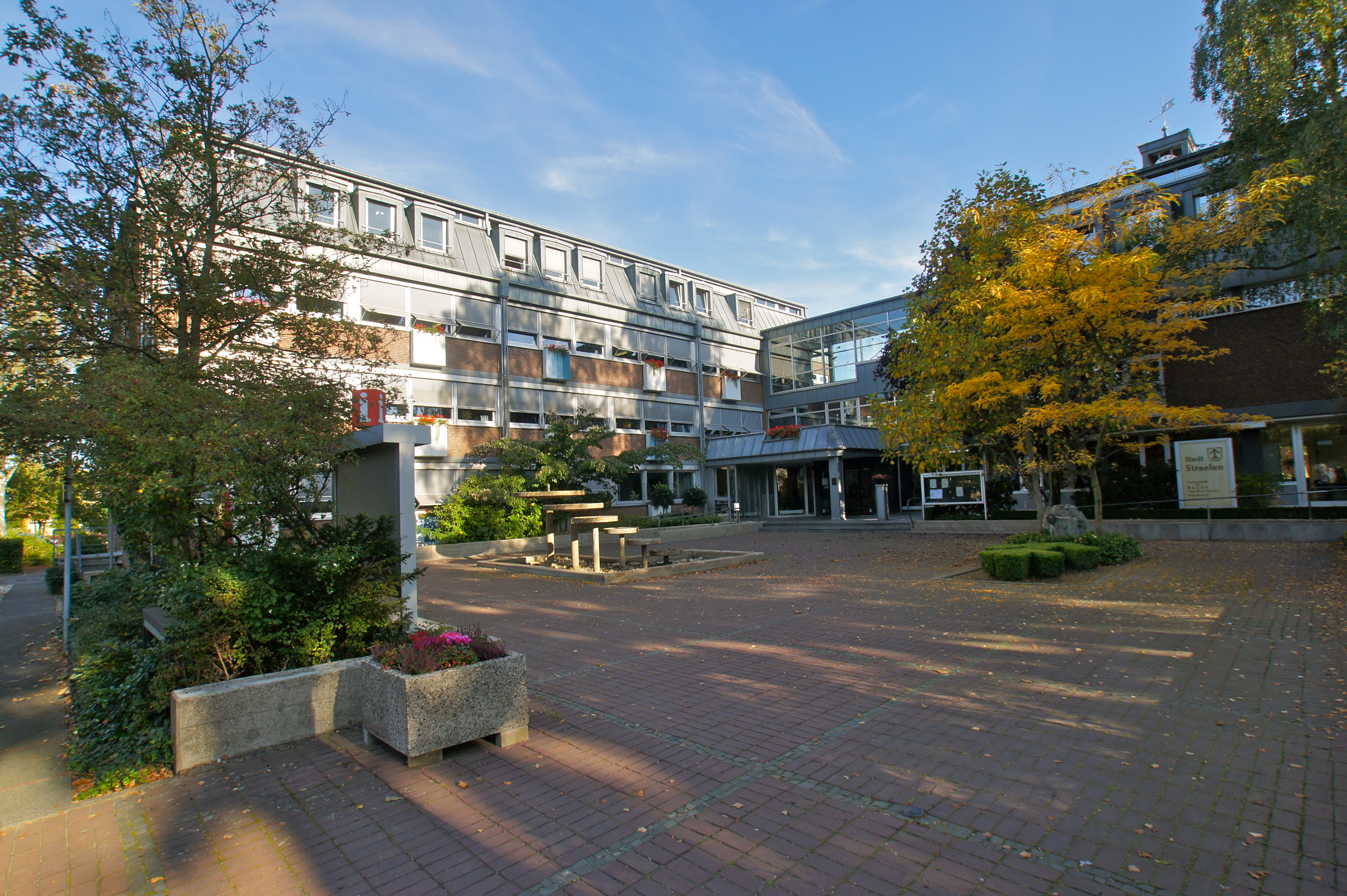 Straelen, Germany: Town hall